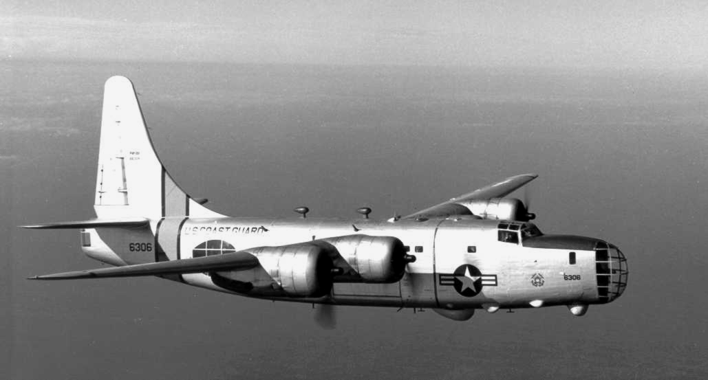 A U.S. Coast Guard Consolidated P4Y-2G Privateer (BuNo 66306) in flight, circa in the 1950s. This aircraft later became a water bomber (N7974A, Hawkins and Powers).